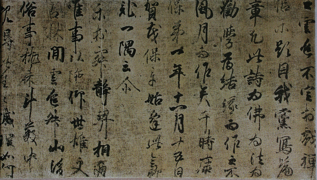 A part of KANGAKUKAIKI, ink on silk, handscroll, 12th century, Calligraphy by Fujiwara no Tadamichi (ACE1097-03-15 - 1164-03-13).